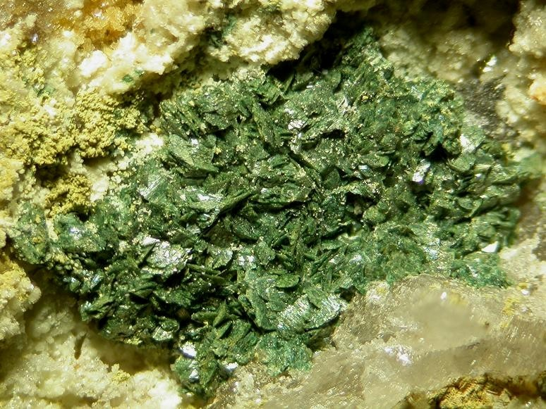 Vauquelinite Locality: Point 14.0, Hohenstein, Reichenbach, Bensheim, Odenwald, Hesse, Germany Field of view 5 mm. Ex Klaus Petitjean collection. Specimen and photo Leon Hupperichs.